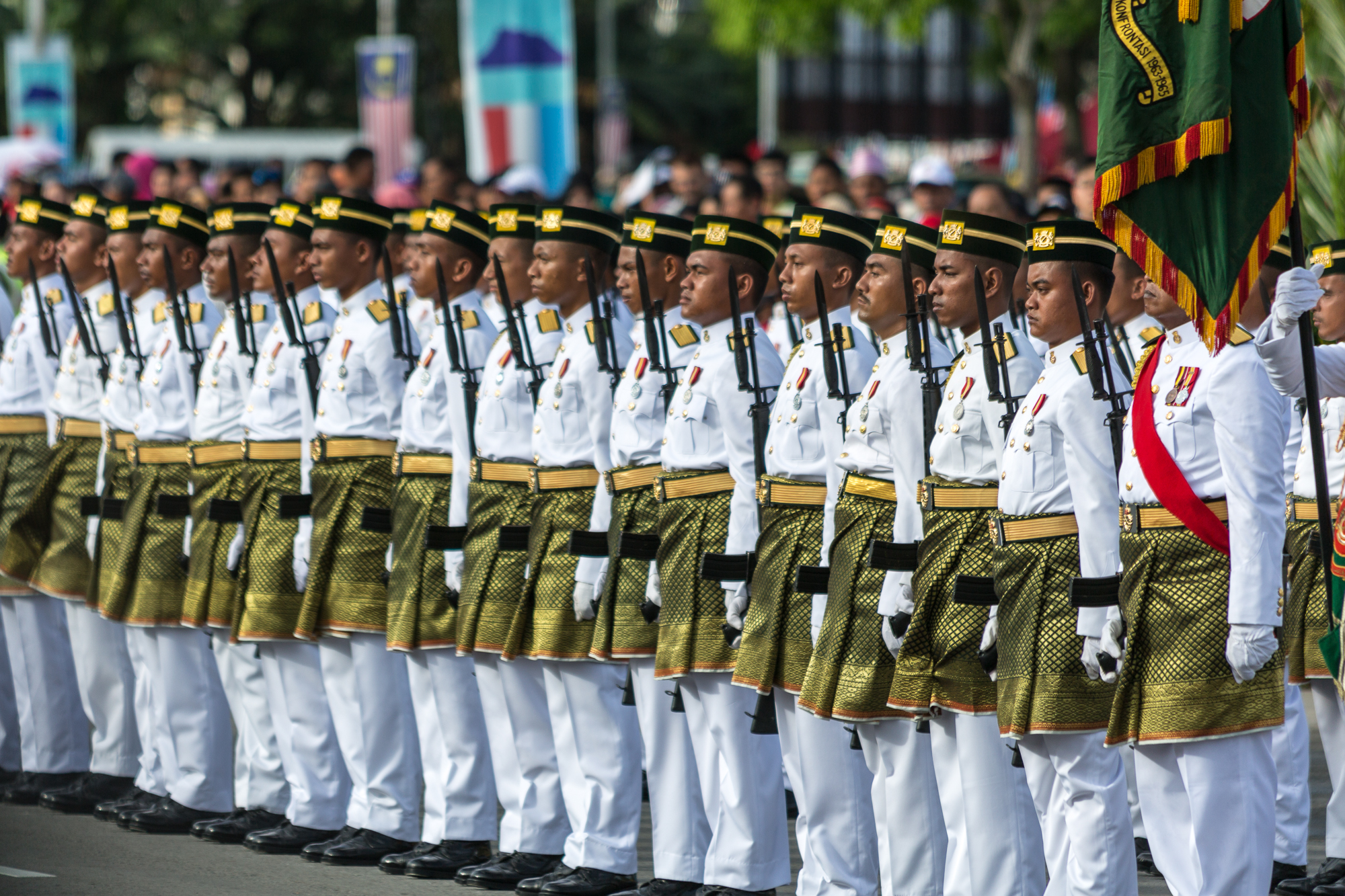 Kota Kinabalu, Sabah, Malaysia: Celebrations of Hari Merdeka 2013 in Likas on August 31, 2013